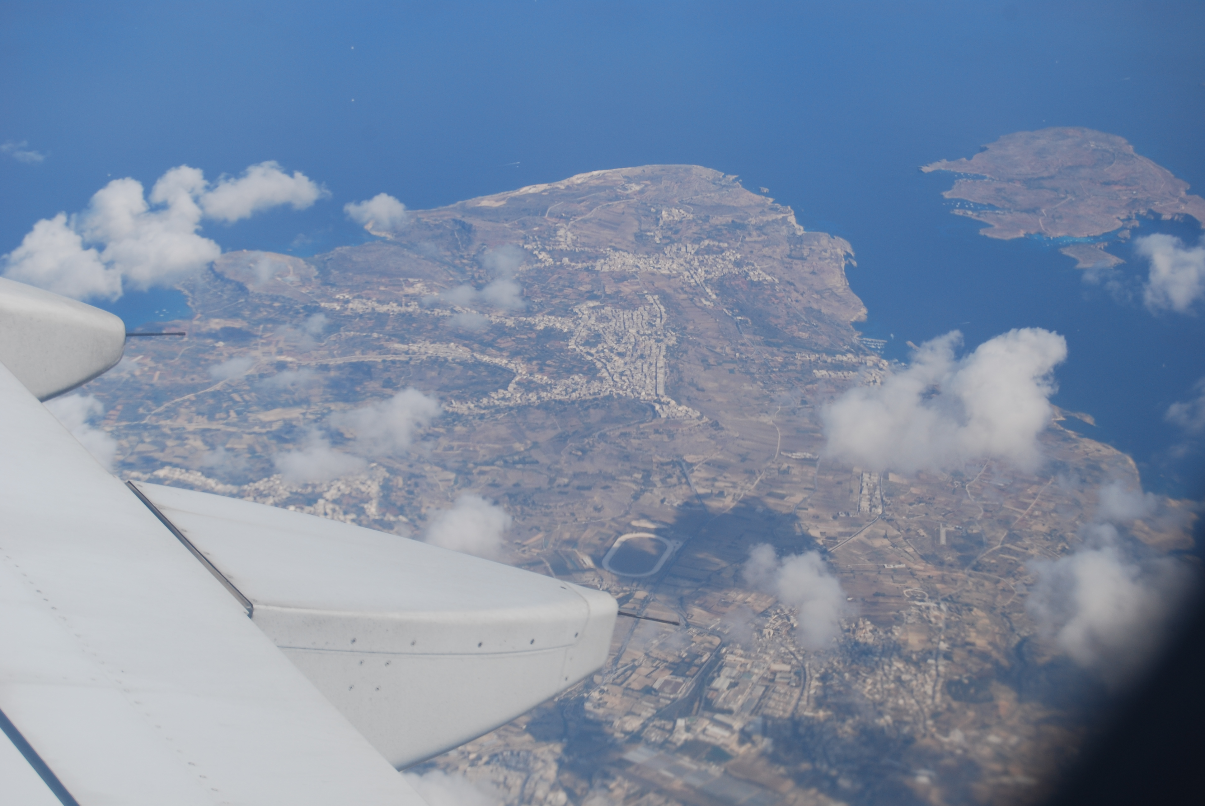 Gozo, Malta